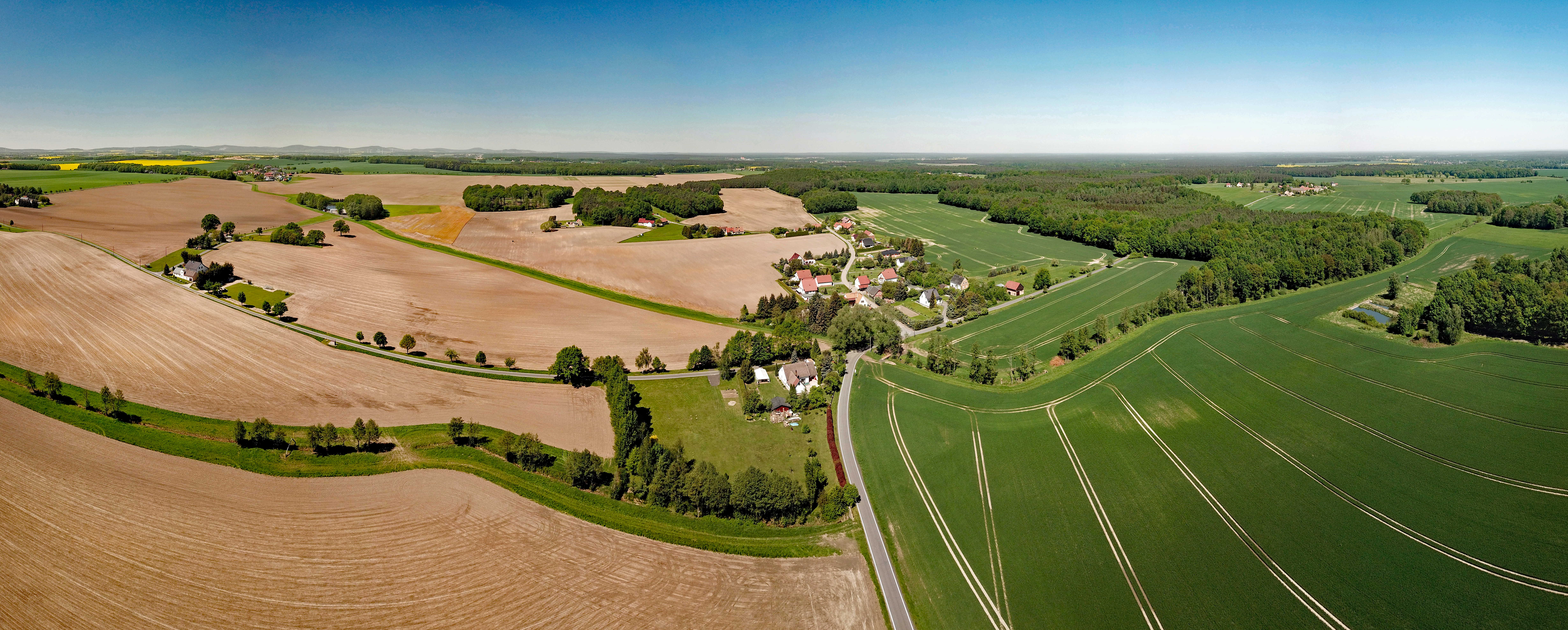 Neu-Puschwitz (Puschwitz, Saxony, Germany) Hornjoserbsce: Powětrowy wobraz Nowych Bóšic